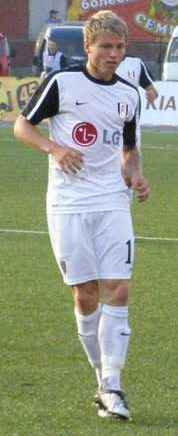 Bjørn Helge Riise in action for Fulham F.C.